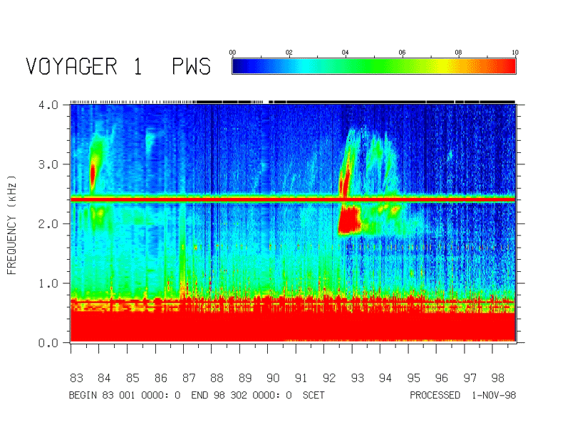 The intense radio emissions in the 2-3 kHz range from the direction of the nose of the heliosphere which was observed by both Voyager probes.